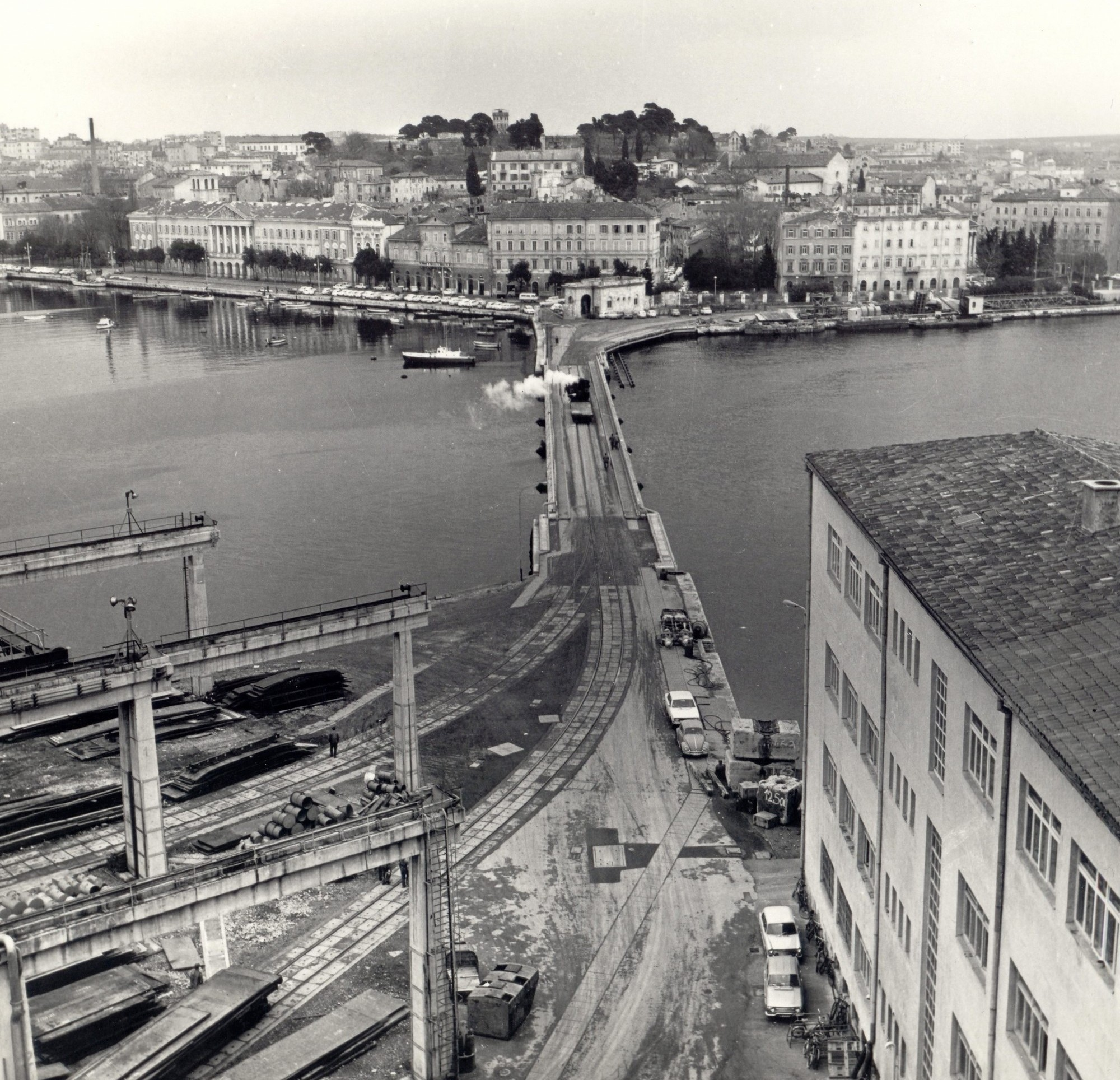 Uljanik shipyard, Pula: view from a crane (probably) on Uljanik island towards the historical core of the city.